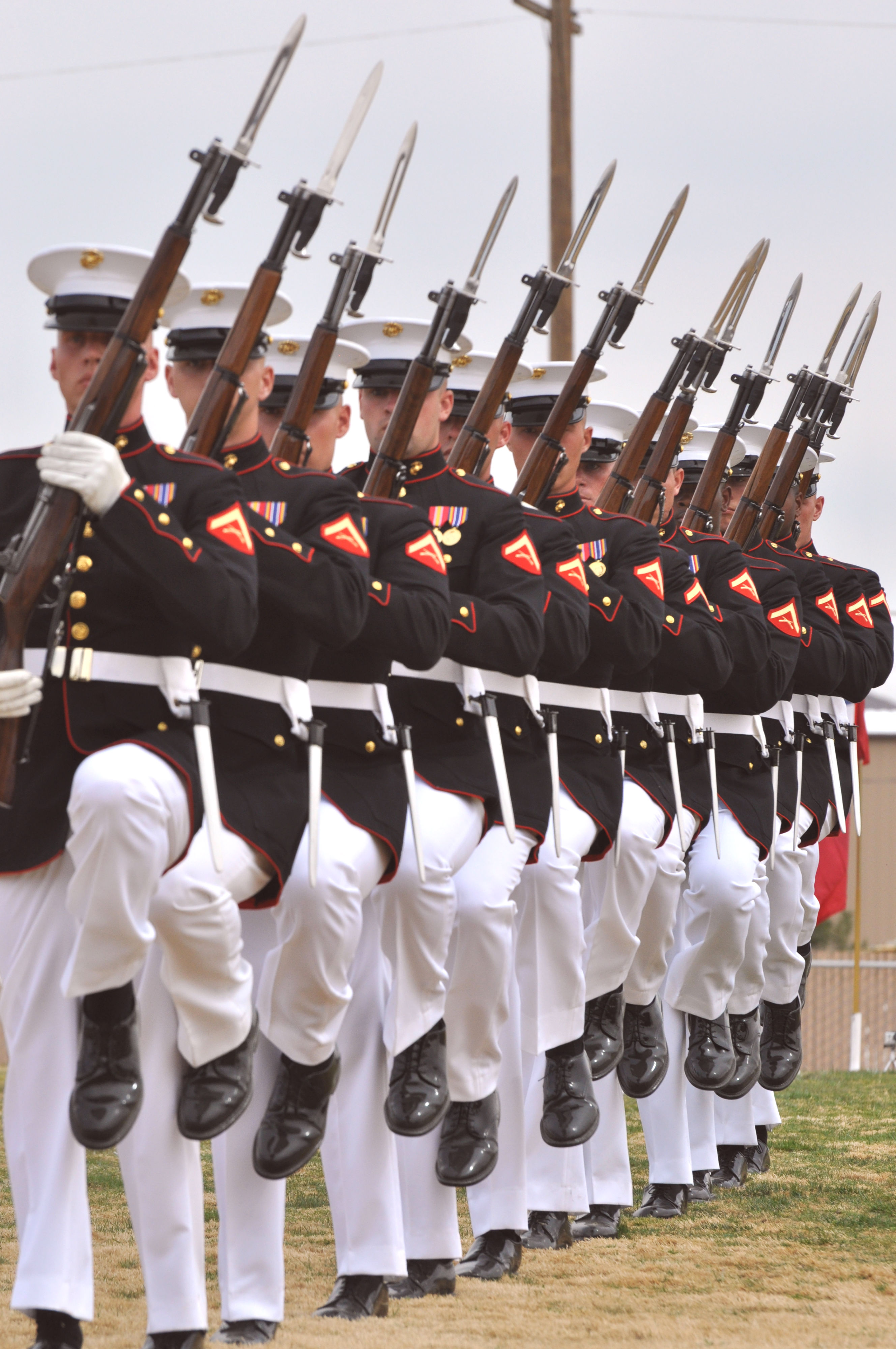 Marines with the Silent Drill Platoon, 8th and I, Marine Barracks, Washington, D.C., march in sync with bayonets attached to their M1 Garand rifles during the 2012 "Music In Motion" tour aboard Marine Corps Logistics Base Barstow, March 5.